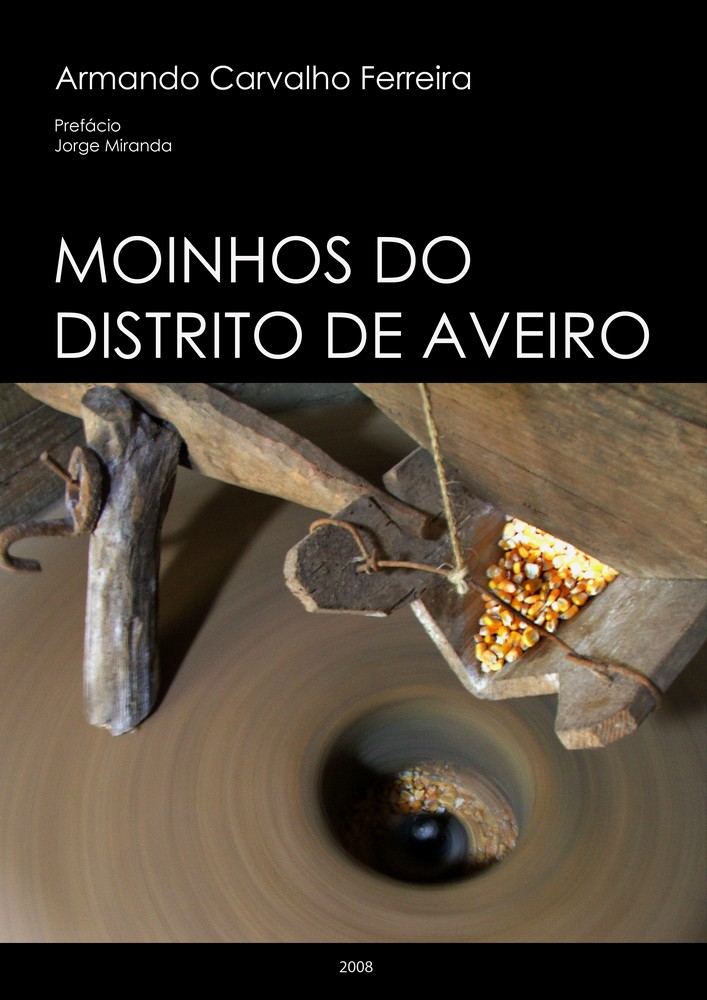 Front cover from book "Moinhos do Distrito de Aveiro", about the mills from this region of Portugal